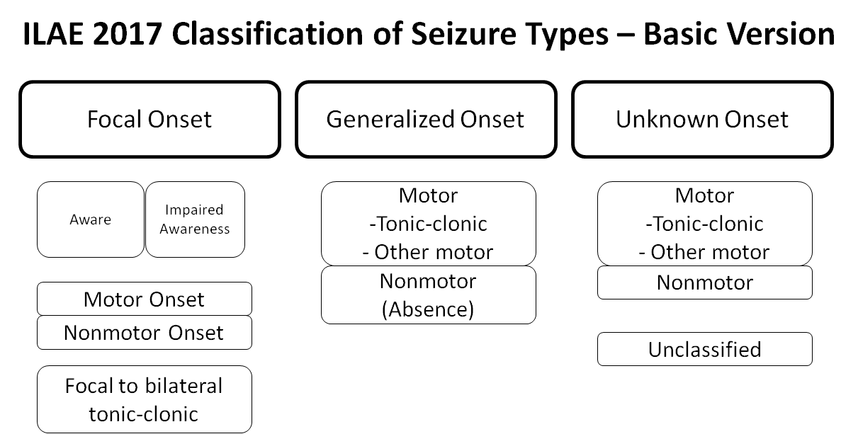 ILAE classification of seizure types 2017 - basic version FISHER, Robert S.; CROSS, J. Helen; FRENCH, Jacqueline A. Operational classification of seizure types by the International League Against Epilepsy: Position Paper of the ILAE Commission for Classification and Terminology. Epilepsia. 2017-04-01, roč. 58, čís. 4, s. 522–530. Dostupné online [cit. 2018-02-20]. ISSN 1528-1167. (anglicky)